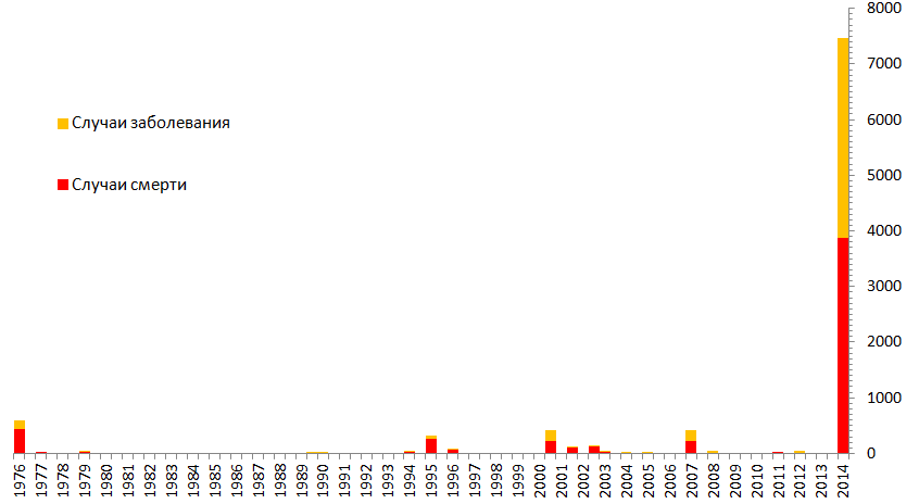 History of ebola outbreaks, showing the number of cases and the ratio of deaths. Cases Deaths